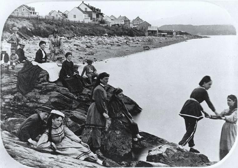 Photograph, Bathers, Murray Bay, QC, about 1870, Livernois, Silver salts on paper mounted on card - Albumen process - 16 x 21 cm